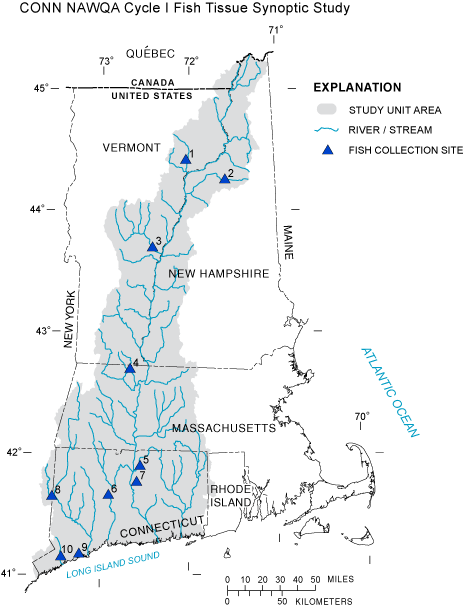 Fish collectin sites on Connecticut waterways.